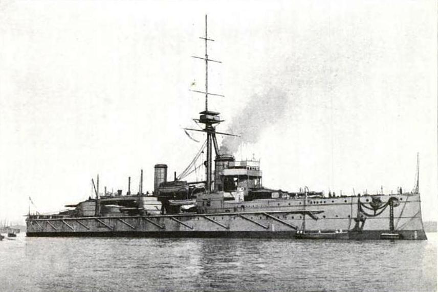 Profile photograph of the HMS Colossus (1910)